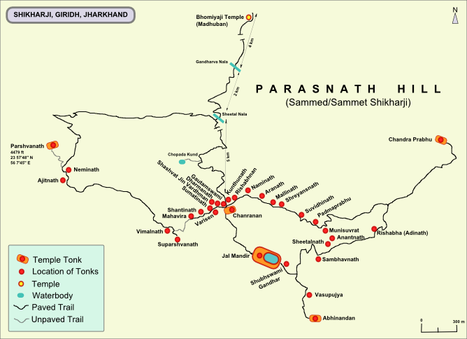 Map of trail connecting Shikharji Jain temples situated at Giridh, Jharkhand, India. Original svg available.